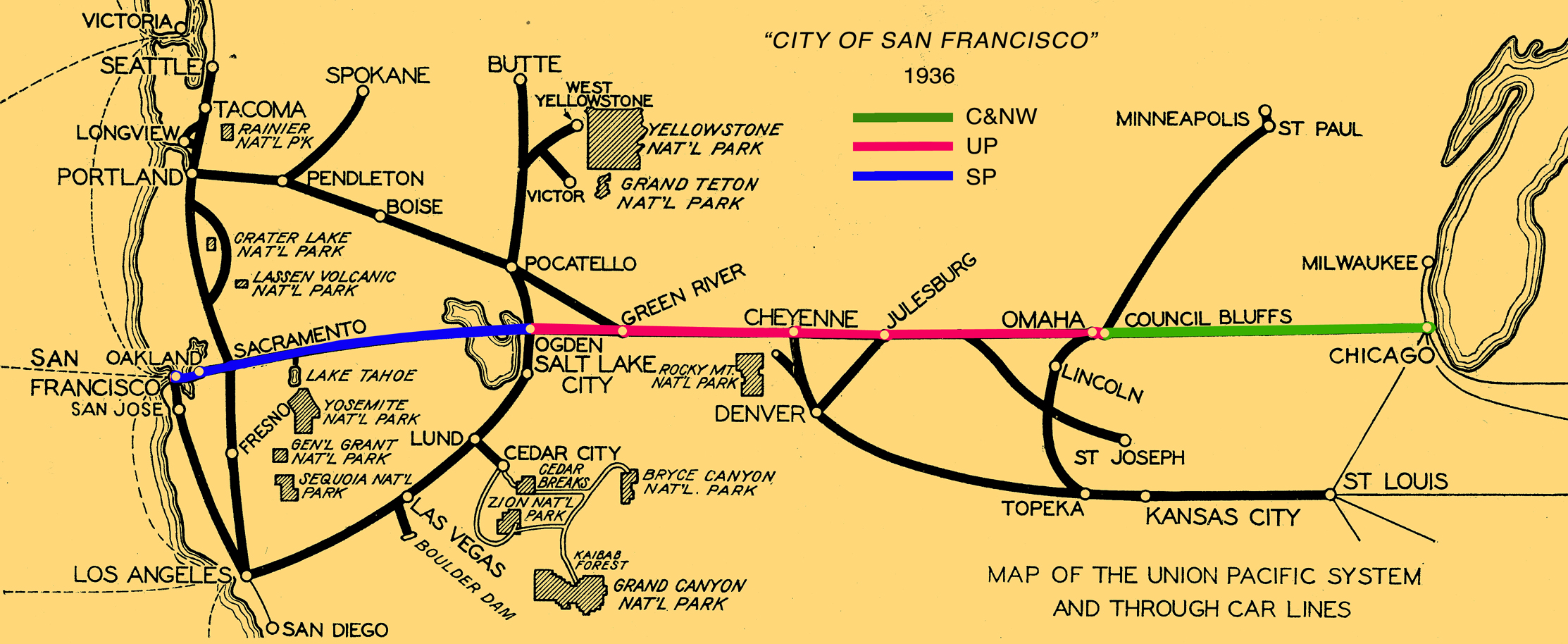 Diagram of the route of the C&NW-UP-SP Chicago-San Francisco streamline train City of San Francisco (1936) Licensing Original Diagram Derivative Diagram